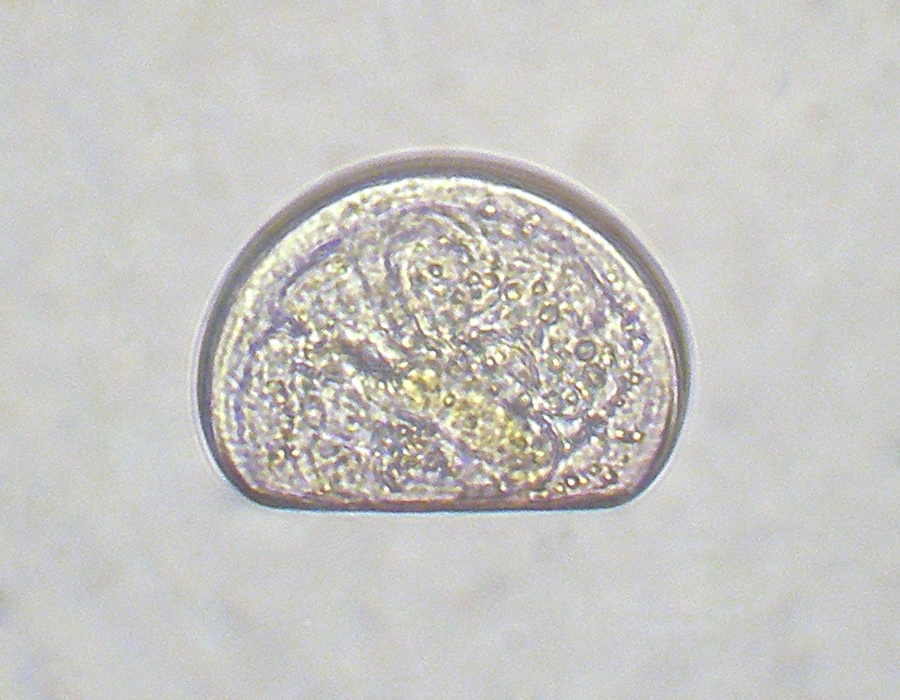 Larva of bivalve; North-West Black Sea, coastal waters, at a depth of 0.5 metre